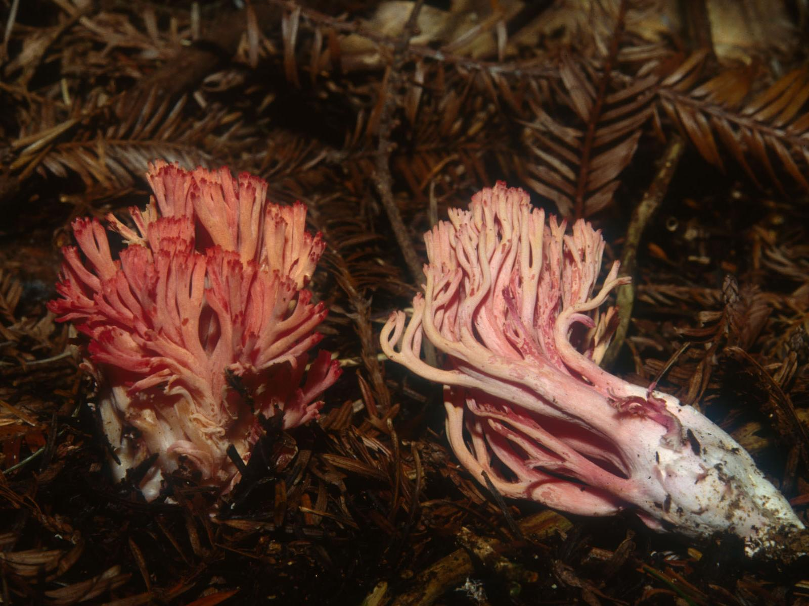 Fruit bodies of the coral fungus Ramaria araiospora Marr & D.E. Stuntz. Photographed in Gualala, California, USA.